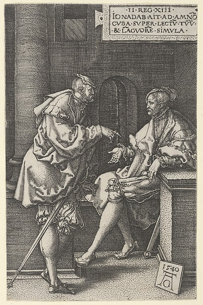 Plate 1 from a series of seven with the Story of Amnon and Tamar. Amnon, standing before a column at left, addresses the seated Jonadab at right.